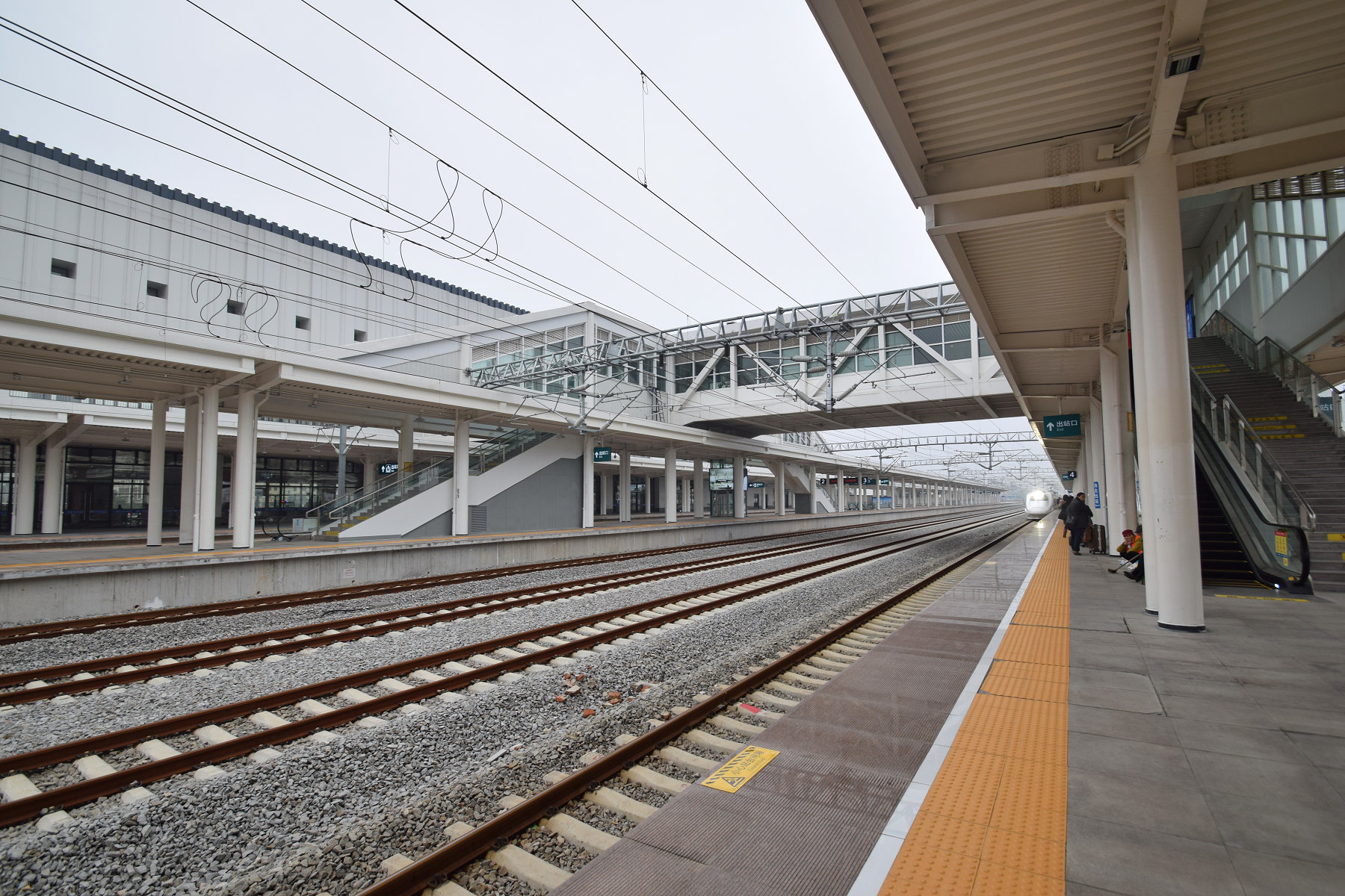 Anqing Railway Station, Nanjing - Anqing High-speed Railway